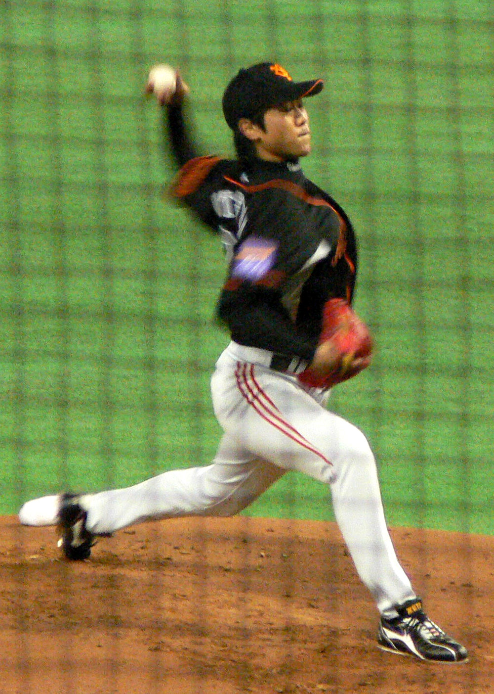 Tetsuya Utsumi of the Yomiuri Giants pitches against the MLB All-Star team in Game 2 of the Major League Baseball Japan All-Star Series at Tokyo Dome on November 4, 2006.